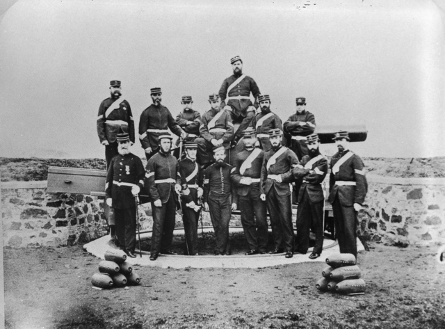 Members of the Hobart Town Volunteer Artillery standing in a gun emplacement at Queen's Battery. LEFT TO RIGHT: BACK ROW: SERGEANT ROBLIN, TRUMPET MAJOR SMITH, SERGEANT CLARKE, SERGEANT HARBOTTLE, SERGEANT MAJOR HARRIS, SERGEANT HOGG, ORDERLY CLERK MEWBURN; FRONT ROW: QUARTER MASTER SERGEANT BEAUMONT, ARMOURER SERGEANT CHISHOLM, SERGEANT MAJOR HOOD, SERGEANT INSTRUCTOR ECCLESTON RA, SERGEANT BEST, SERGEANT EVANS, SERGEANT SEAGER AND SERGEANT HENN